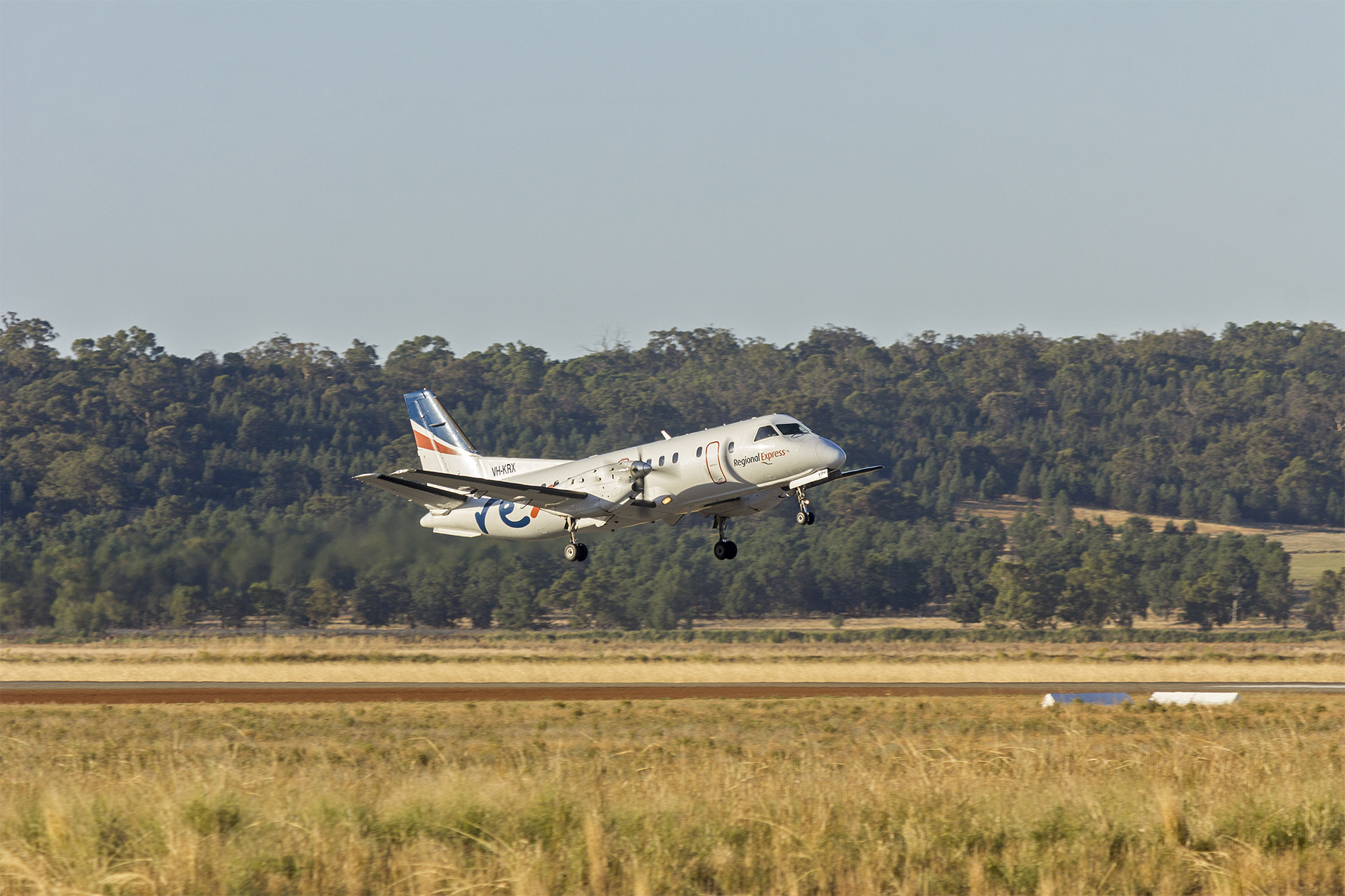 Regional Express Airlines (VH-KRX) Saab 340B taking off at Narrandera-Leeton Airport.